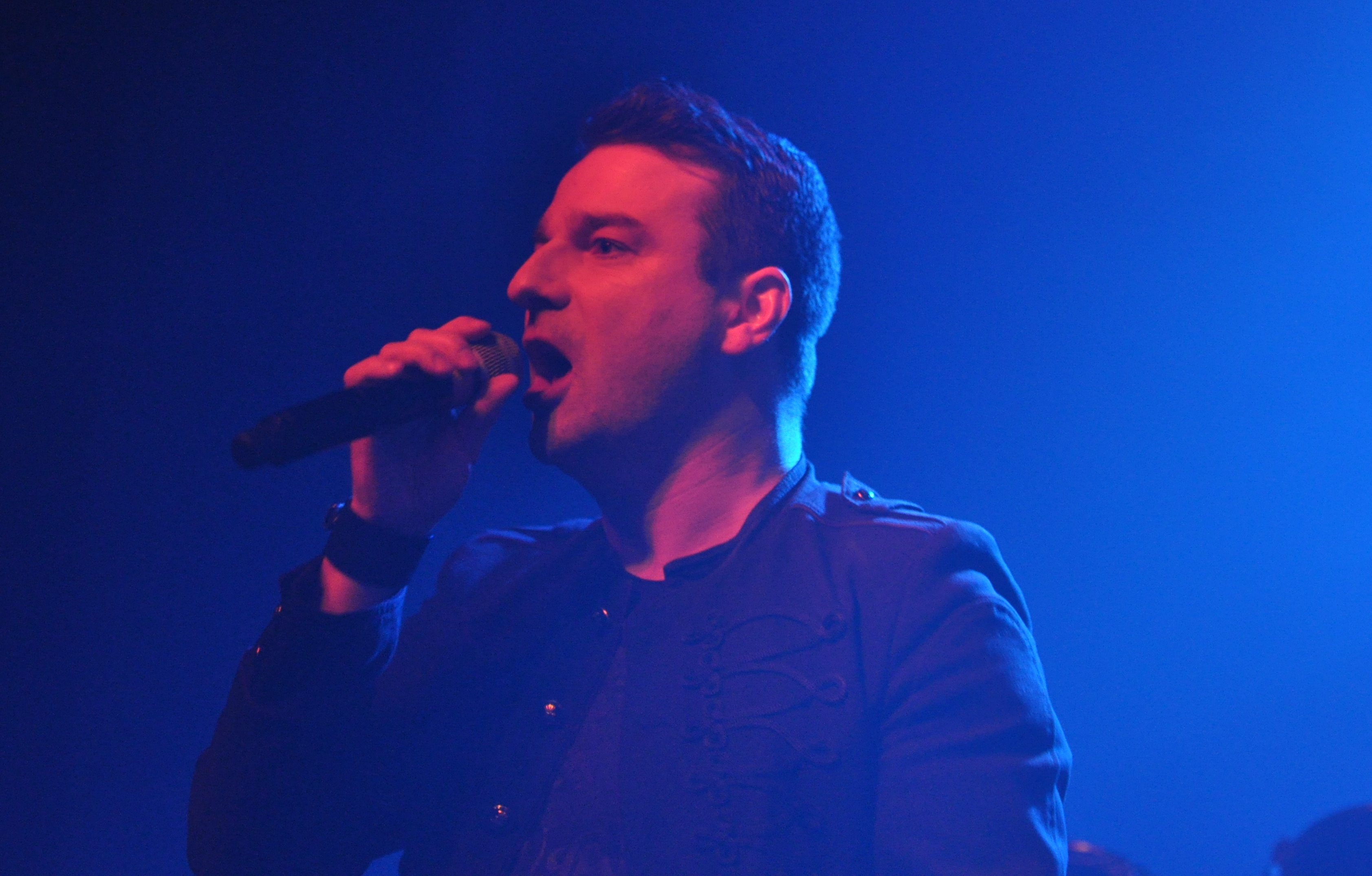 The German Band Melotron at e-tropolis 2013, Berlin